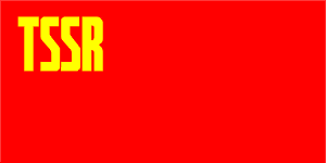 Flag of Turkmen SSR(1937).